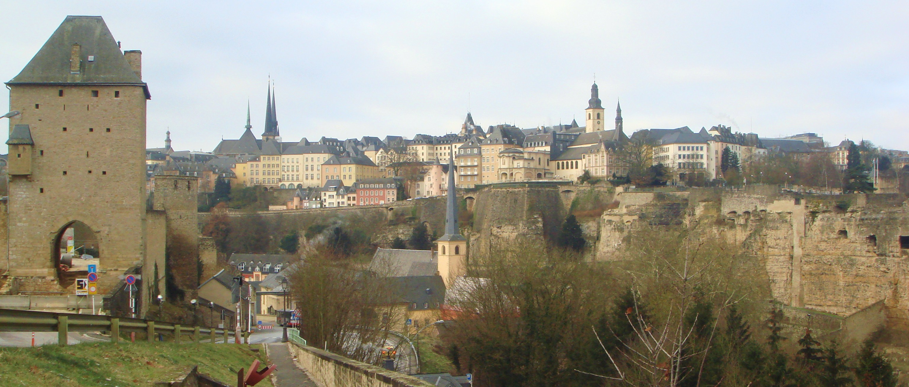 Luxembourg City seen from rue de Trèves: Grund and Ville-haute.